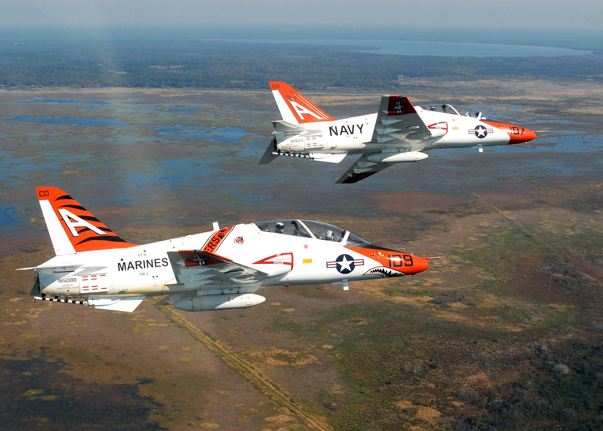 Gainesville, Fla. (Nov. 18, 2006) - Two T-45C Goshawk jets from Training Air Wing One (TW-1) prepare to perform flyover maneuvers for football fans at Gator Stadium prior to the start of the University of Florida Gators match up against the visiting Western Carolina Catamounts. TW-1, consisting of pilots and student aviators from Training Squadron Seven (VT-7) and Training Squadron Nine (VT-9), performs flyovers for university games three to four times a season for various schools around the country. U.S. Navy photo by 1st Lt. Andrew Straessle (RELEASED)